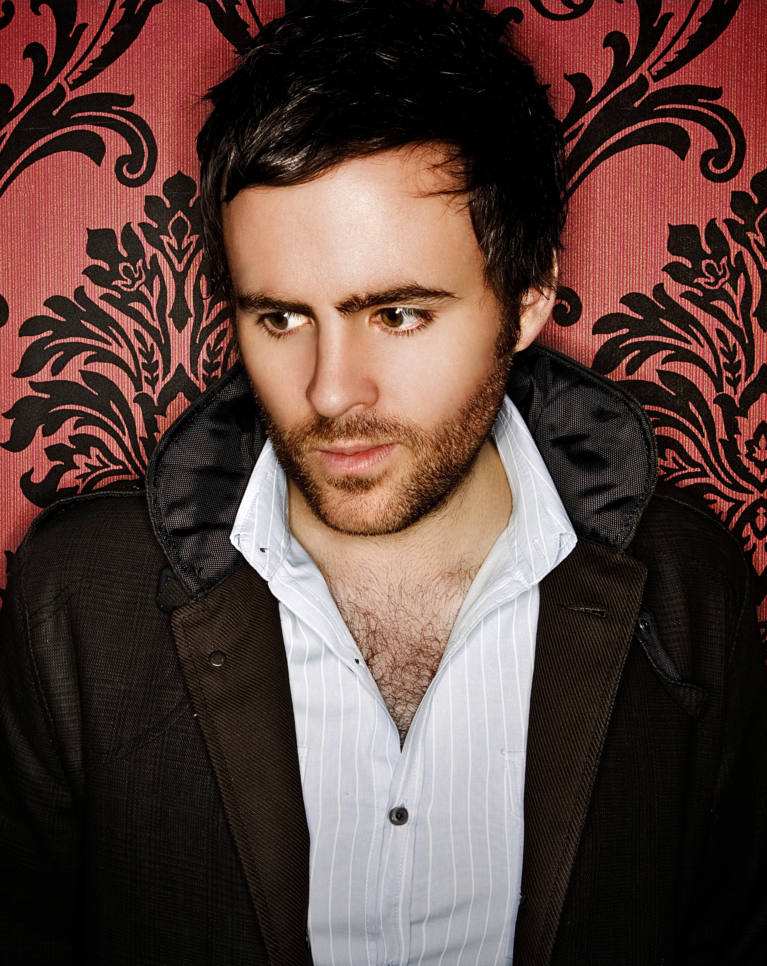 English record producer Gareth Emery in November 2008, at Beehive Mill, Manchester, UK.